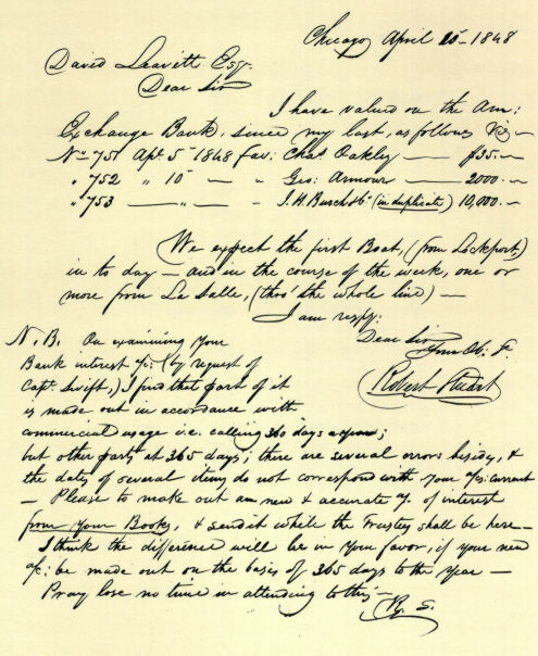 Letter from Robert Stuart to David Leavitt, president of the American Exchange Bank of New York and of of two representative of the subscribers of the $1.6 million loan to complete the Illinois and Michigan Canal. Leavitt Street in Chicago is named for the New York City banker in honor of his efforts.